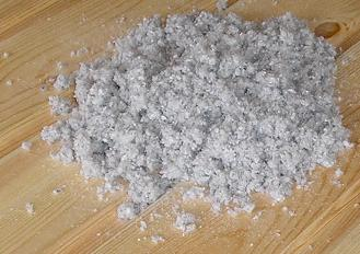 Ekowool